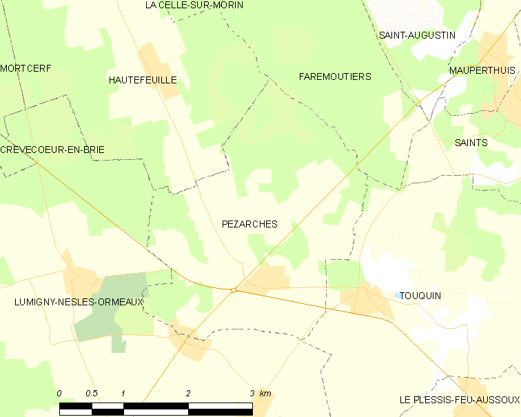 Map of French municipality Pézarches